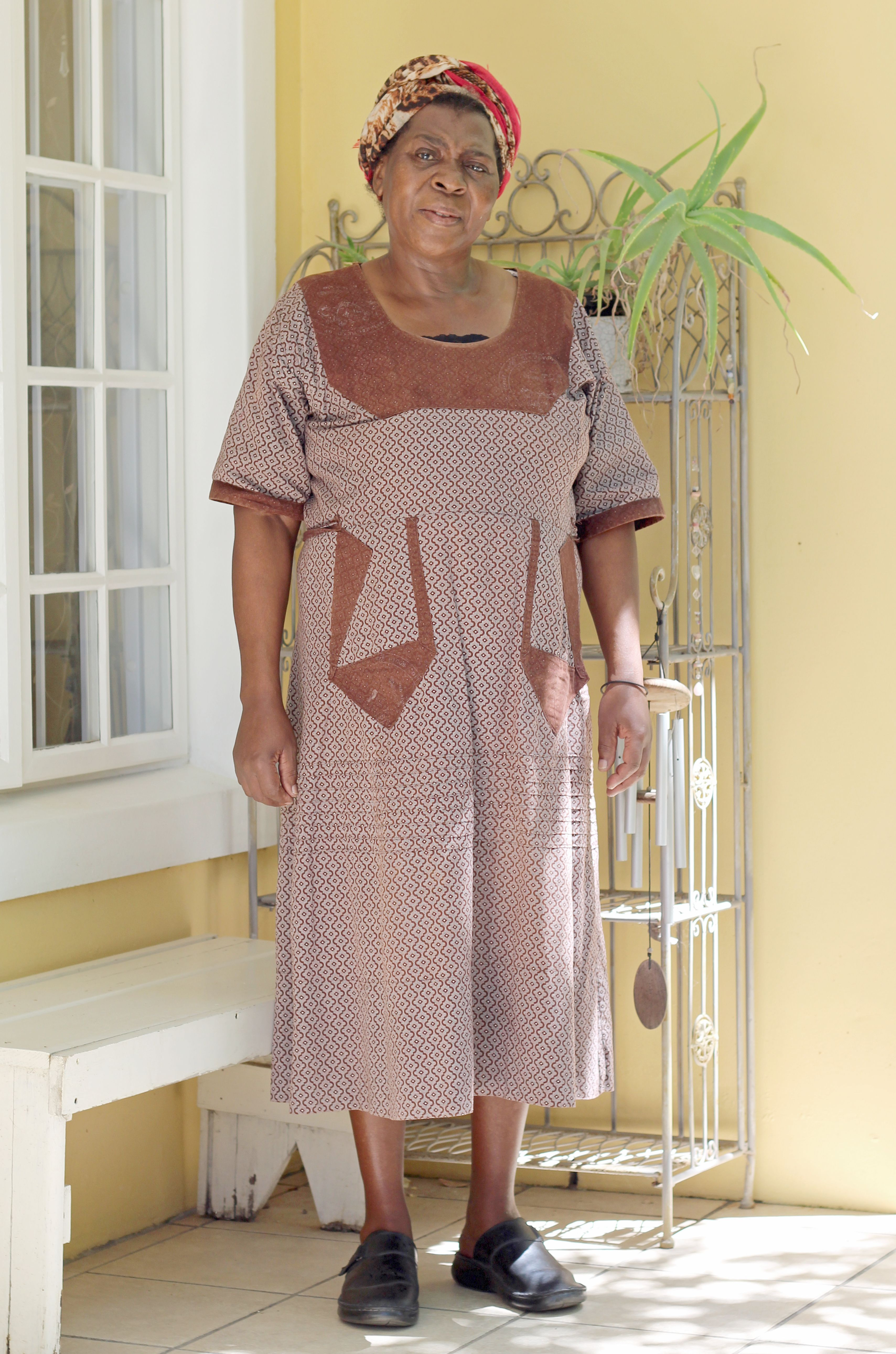 Xhosa woman wearing a chocolate brown shweshwe dress